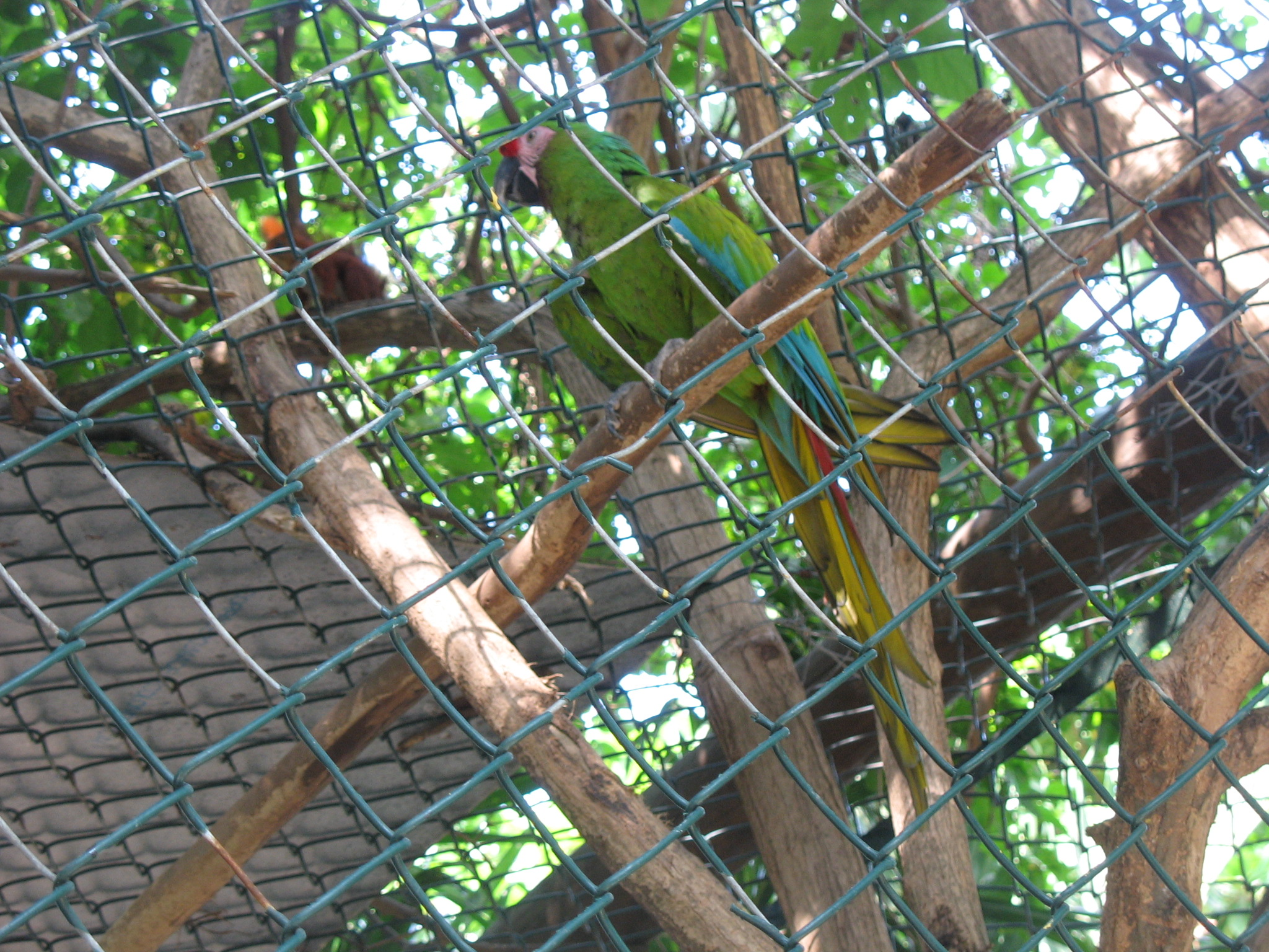 Military Macaw at Barranquilla Zoo.